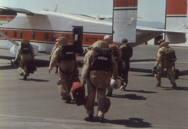 Fully-outfitted smokejumpers boarding a C23 Sherpa aircraft in Missoula, Montana, enroute to a fire in the Idaho Panhandle